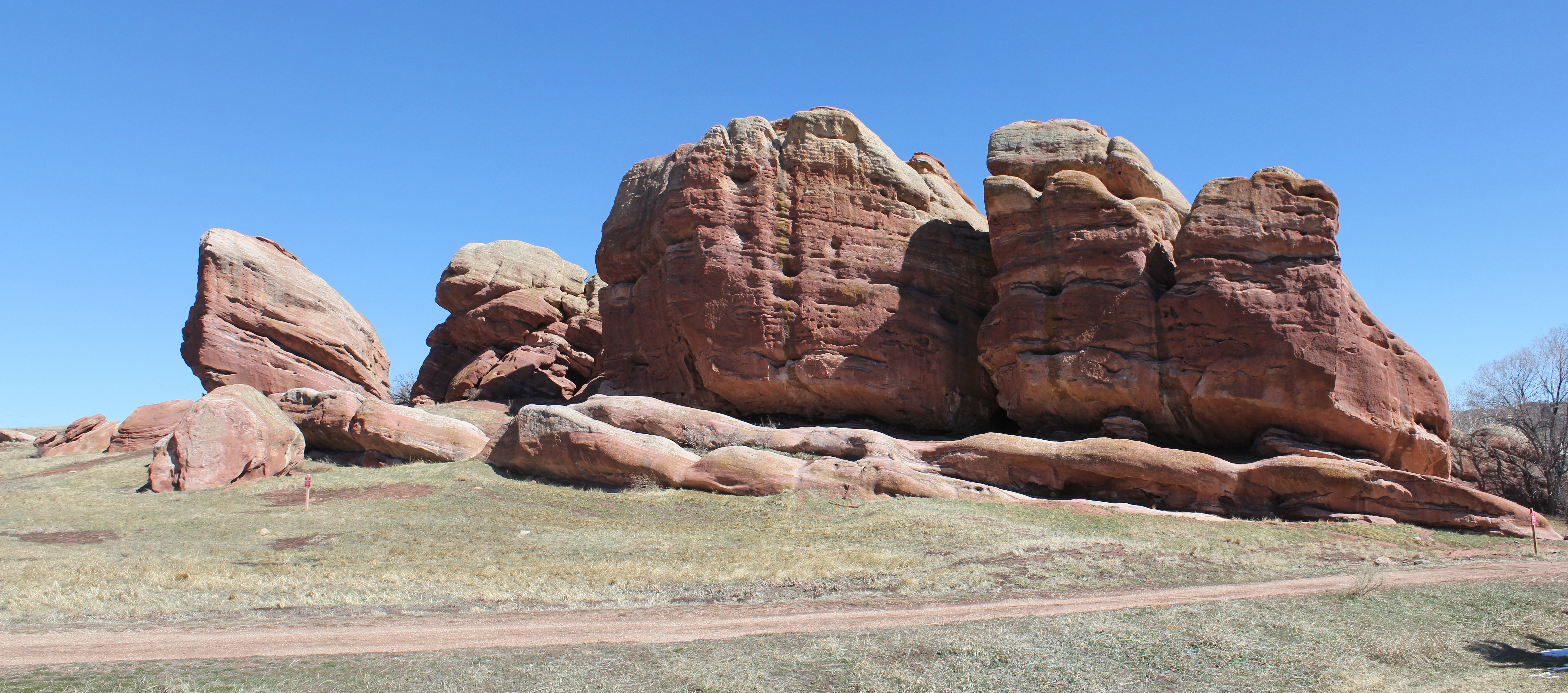 The Bradford House II archaeological site, located at the end of Kildeer Lane in Ken Caryl, Jefferson County, Colorado. The site is also known by this number: 5KF51. The site is listed on the National Register of Historic Places.